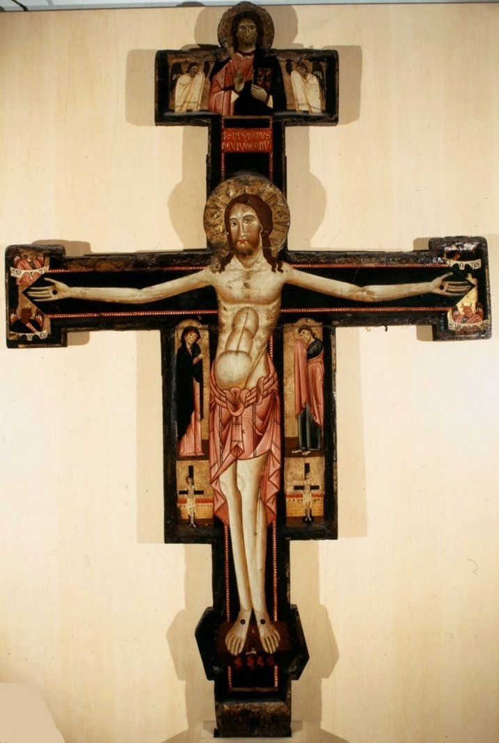 Painted Cross